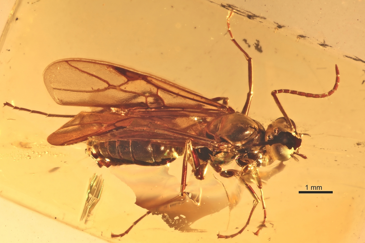 Profile view of a Formica flori male. Middle Eocene; Baltic amber, Samland Peninsula, Kalingrad, Russia Natural History Museum, London, United Kingdom. Specimen BMNHP18819